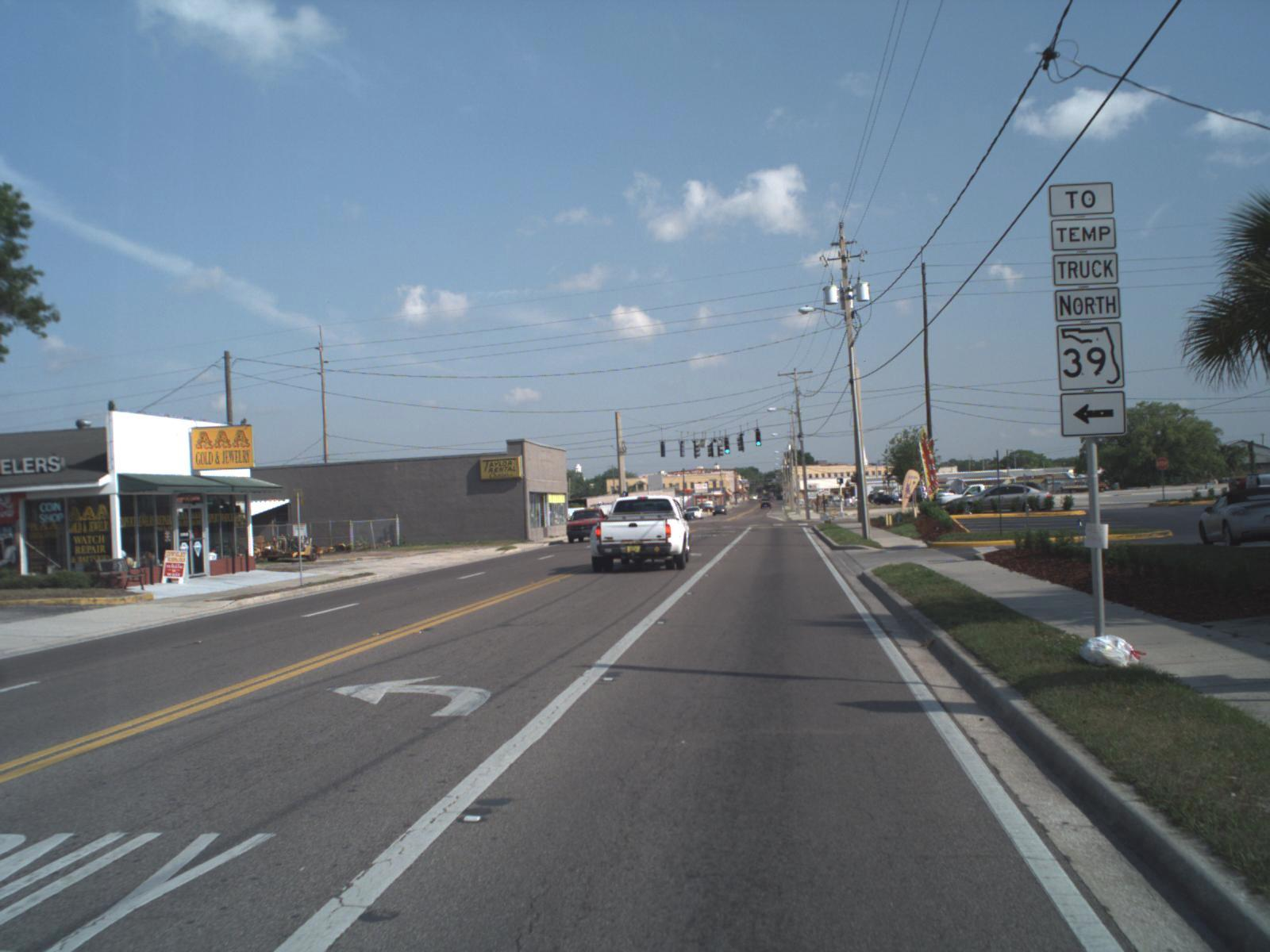 SR 39 northbound at the "temporary truck route" in Plant City, 10070000 mile 4.990 (frame 1029)